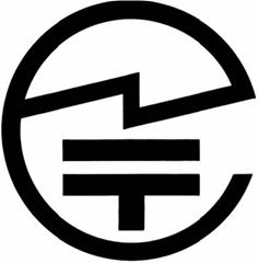 Giteki Mark